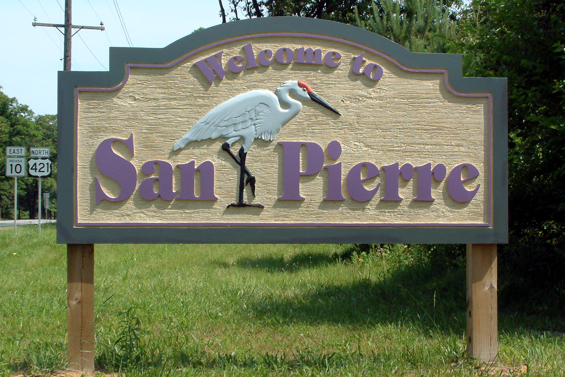 A welcome sign for the community of San Pierre, located south of town along U.S. Route 421 near Indiana State Road 10. The bird represented on the sign is a Sandhill Crane.